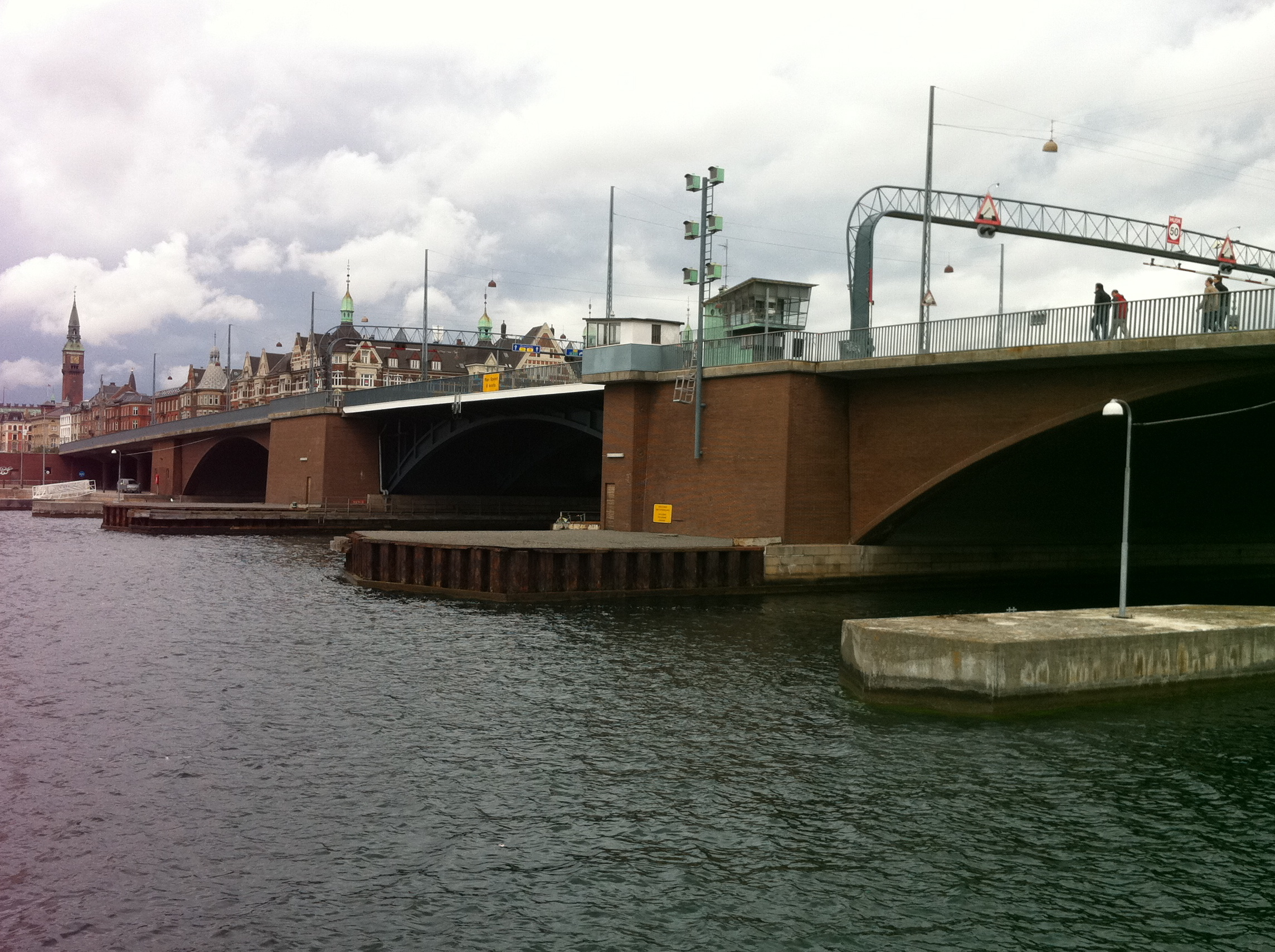 Pillars of the former railway bridge along Langebro, Copenhagen.